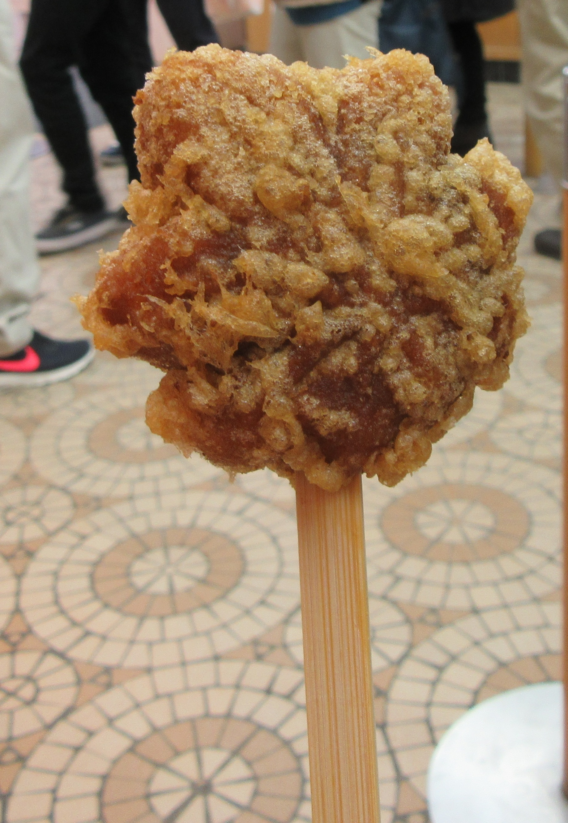 Age-momiji, or fried momiji manju sold by Momiji-do in Itsukushima